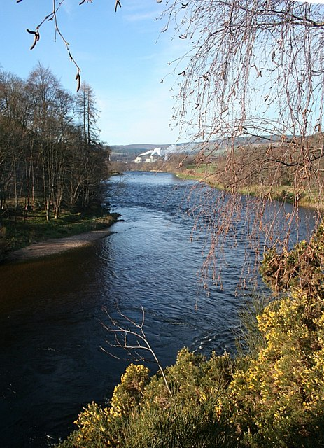 River Spey Looking upstream from the riverbank near the Bridge of Sourden. The steam in the distance is from the dark grains plants at Rothes.